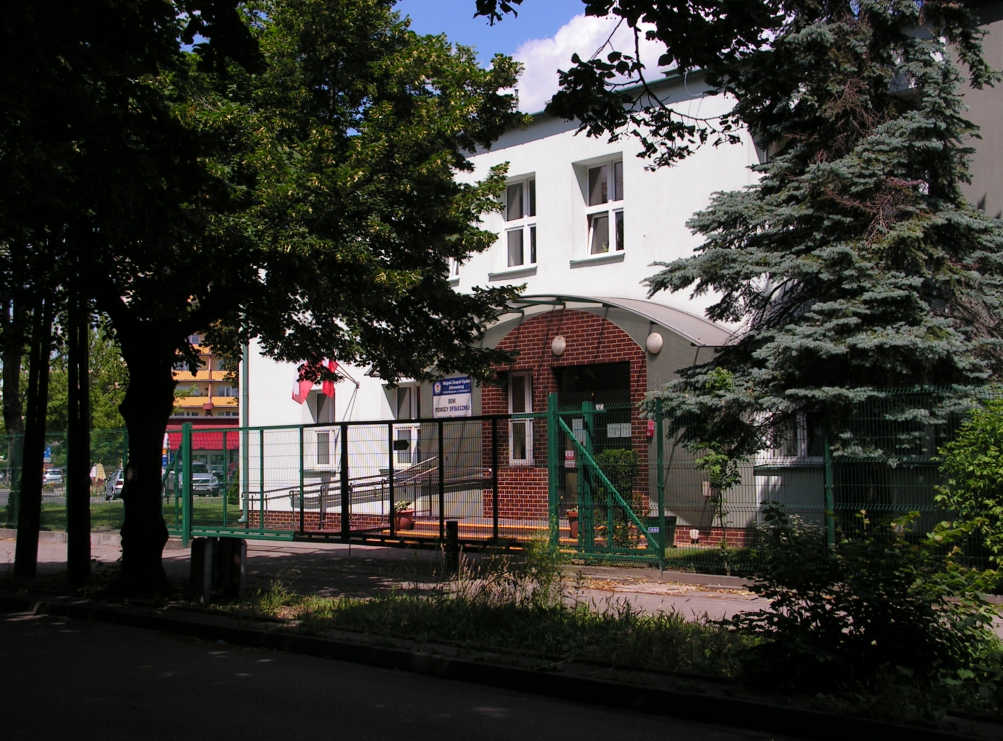 Nursing Home at Żeromskiego Street in Włocławek.